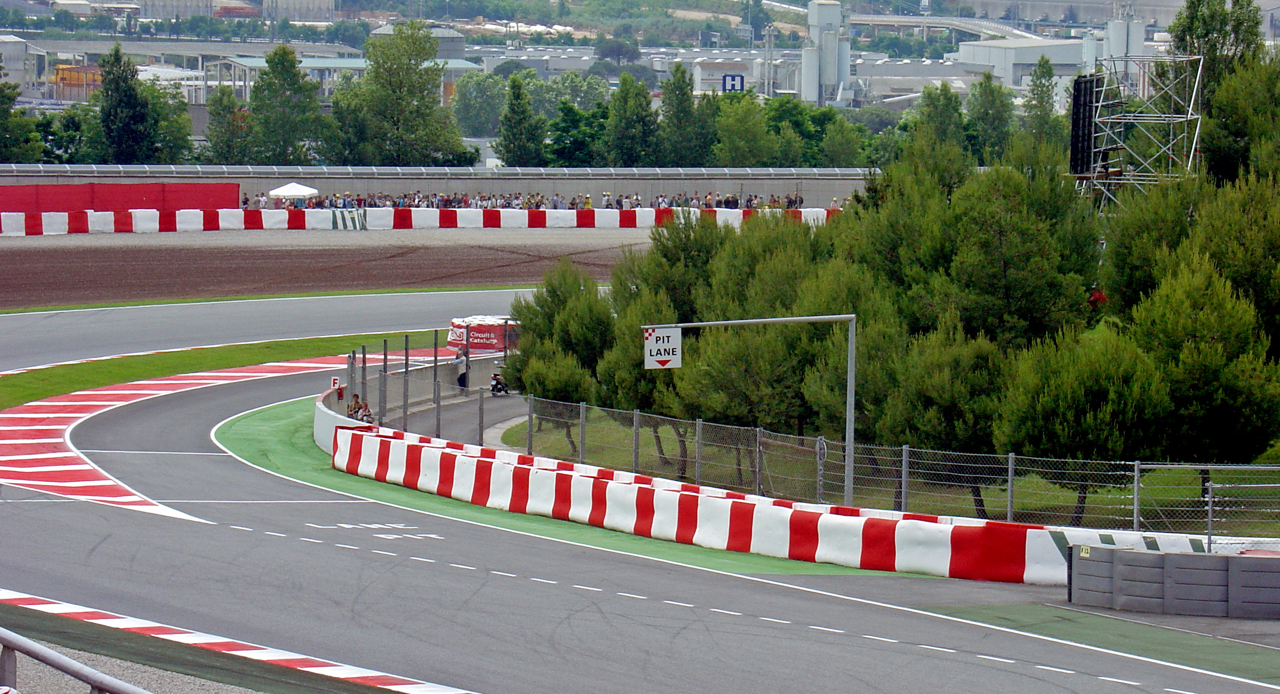 Pit Lane Entrace at Circuit de Catalunya (Montmeló, Vallès Oriental, Catalunya, Spain)